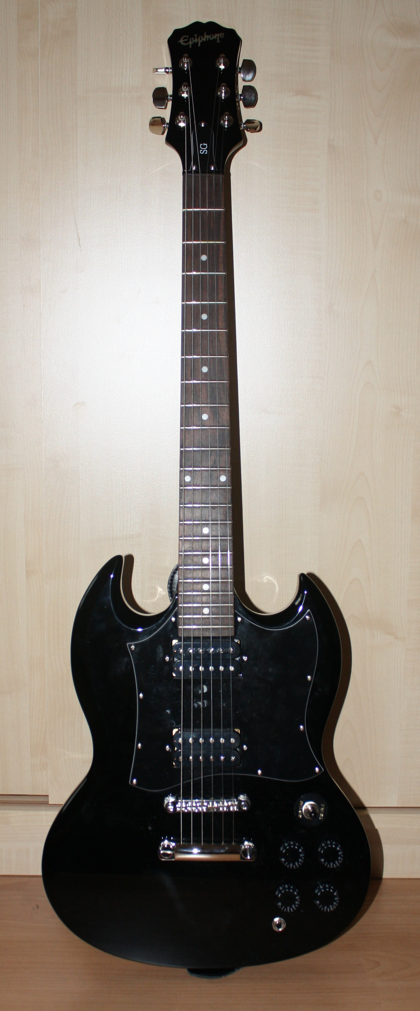 It is a black Epiphone G-310 SG. It is a replica of the legendary Gibson SG.